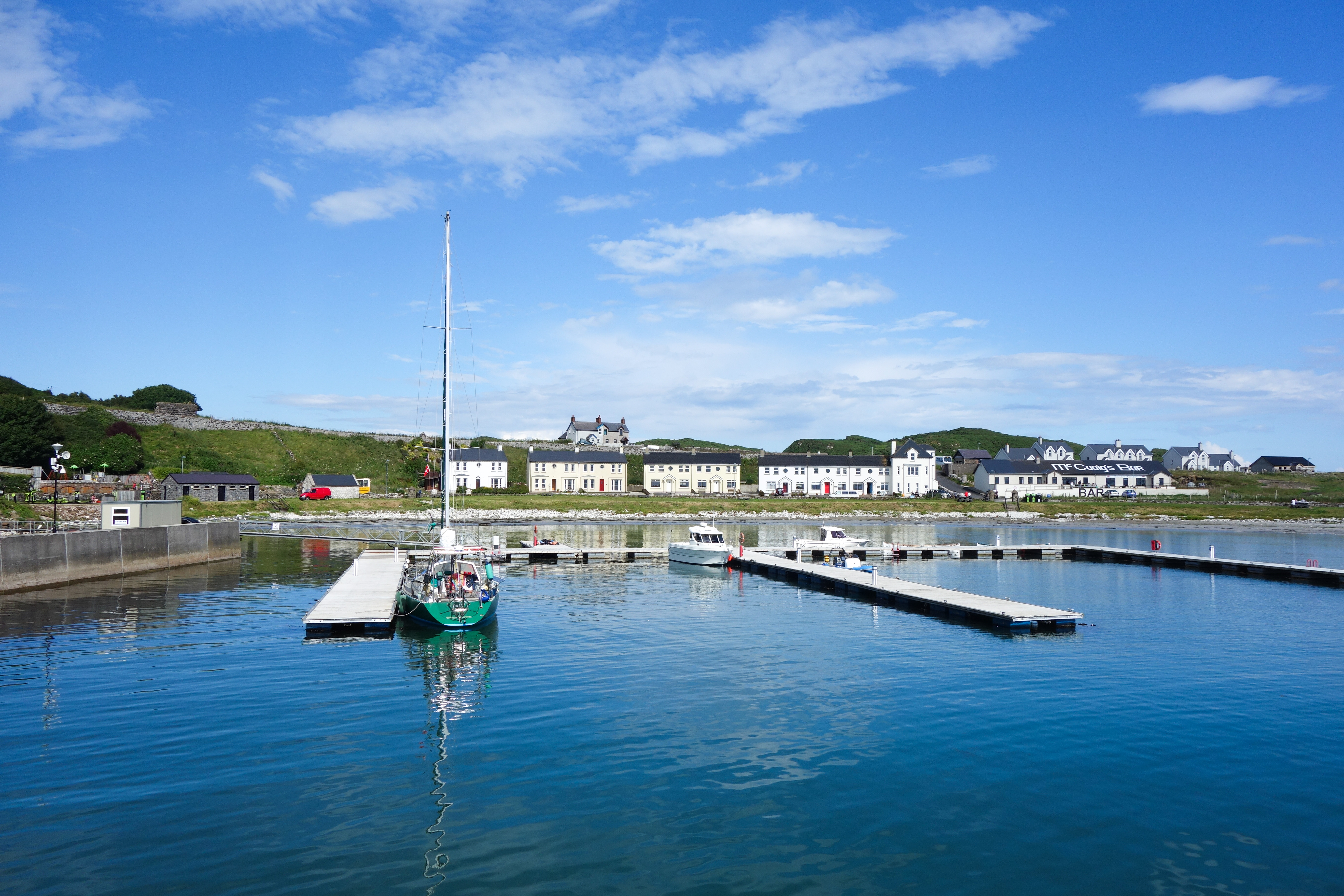 Rathlin Island Harbour